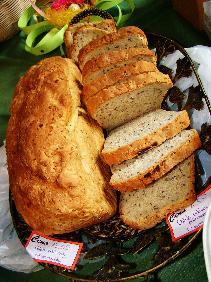 Spelt